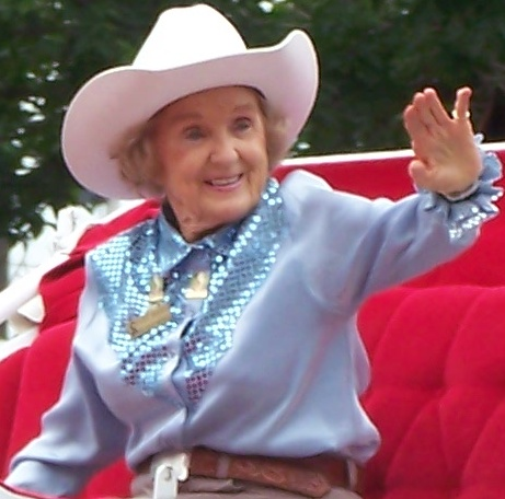 Patsy Rogers attends the 2008 Calgary Stampede. She was parade marshal, in recognition of her being the first ever Stampede Queen.